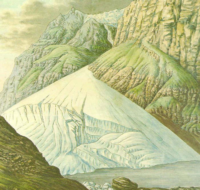 Glacier du Giétro (Switzerland) during the early 19th century